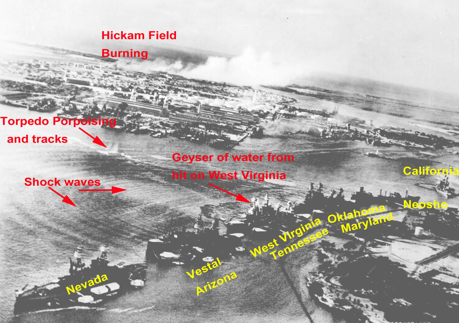 Captured Japanese photograph taken during the December 7, 1941, attack on Pearl Harbor. In the distance, the smoke rises from Hickam Field.